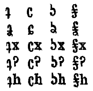 the 20 click consonants of Khoekhoe